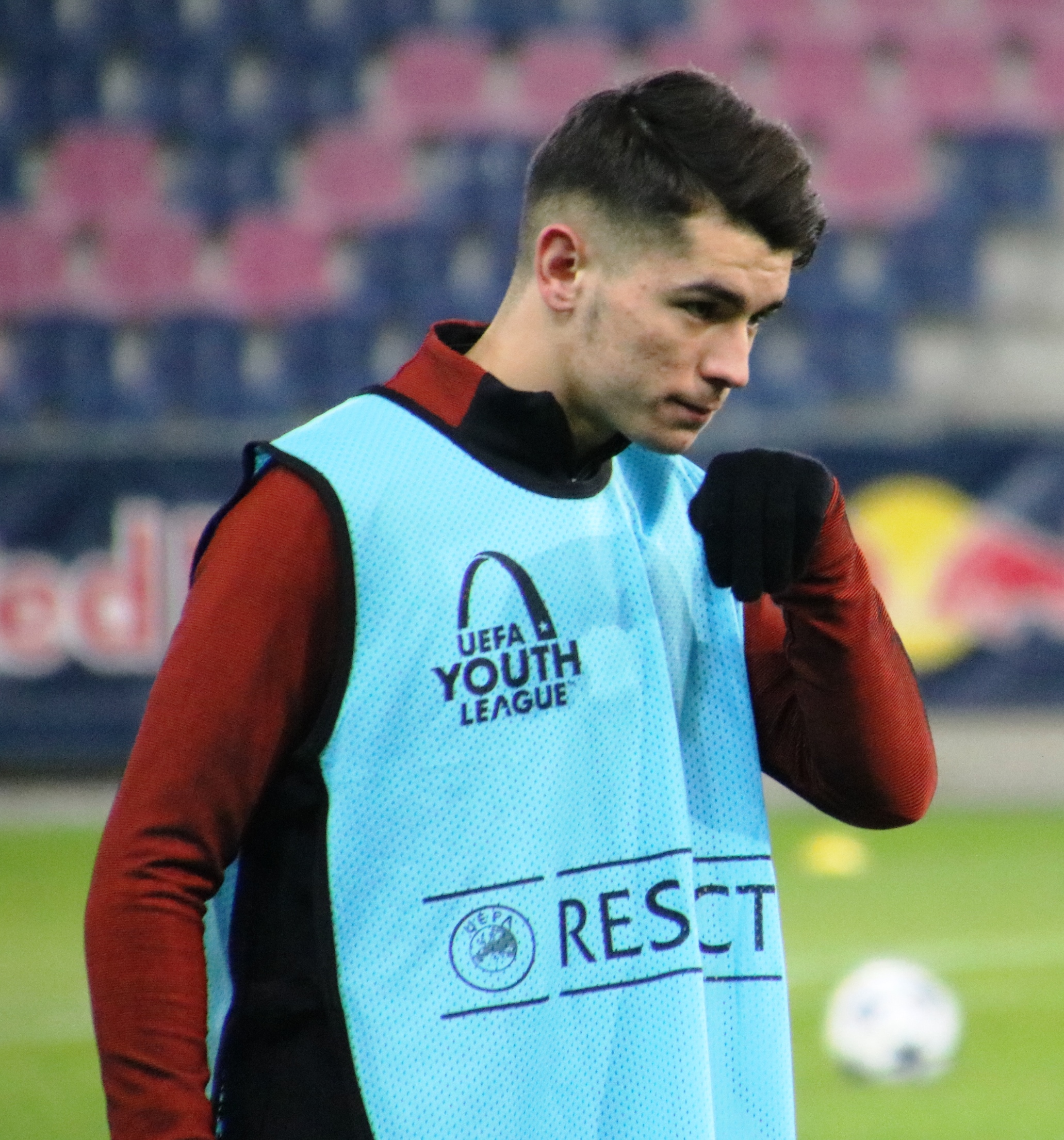 UEFA Youth League olay off match